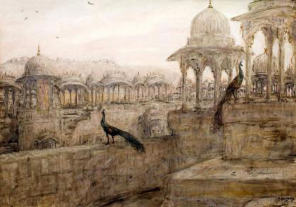 Dome and Two Peacocks (India)